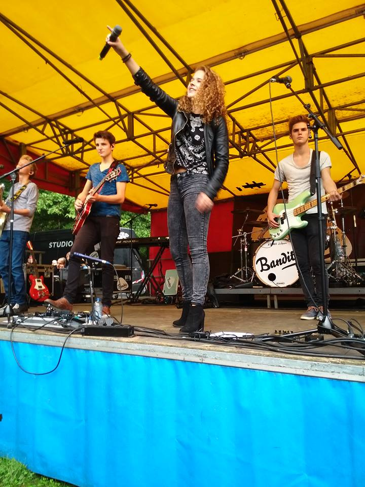 Laura Tesoro